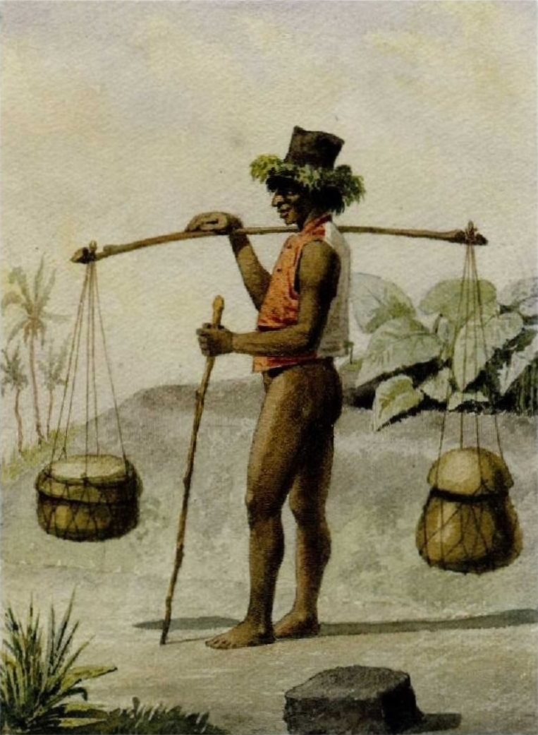 Man of the Hawaiian Islands, 1852. A burden-bearer carries an aumaka (pole), on which he balances calabashes holding poi, vegetable, fowl, or pork for sale.